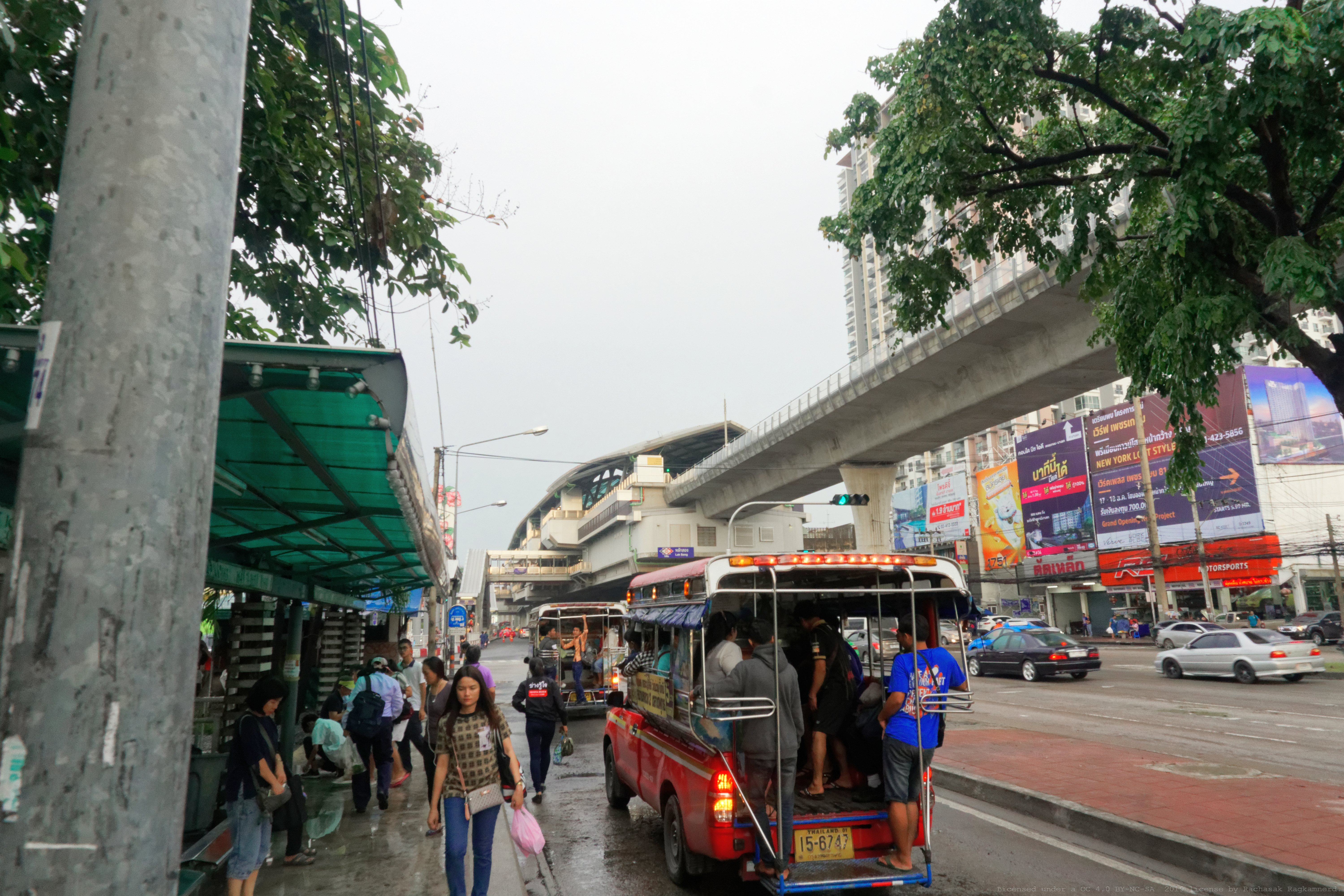 MRT Lak Song station: Station. View from the bus stop near Phetkasem - Kanchanaphisek Road intersection. Including a pick-up truck taxi (a form of micro-bus in Thailand)